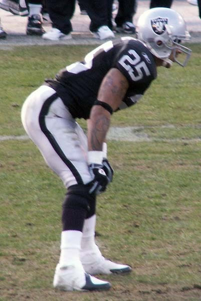 Justin Fargas